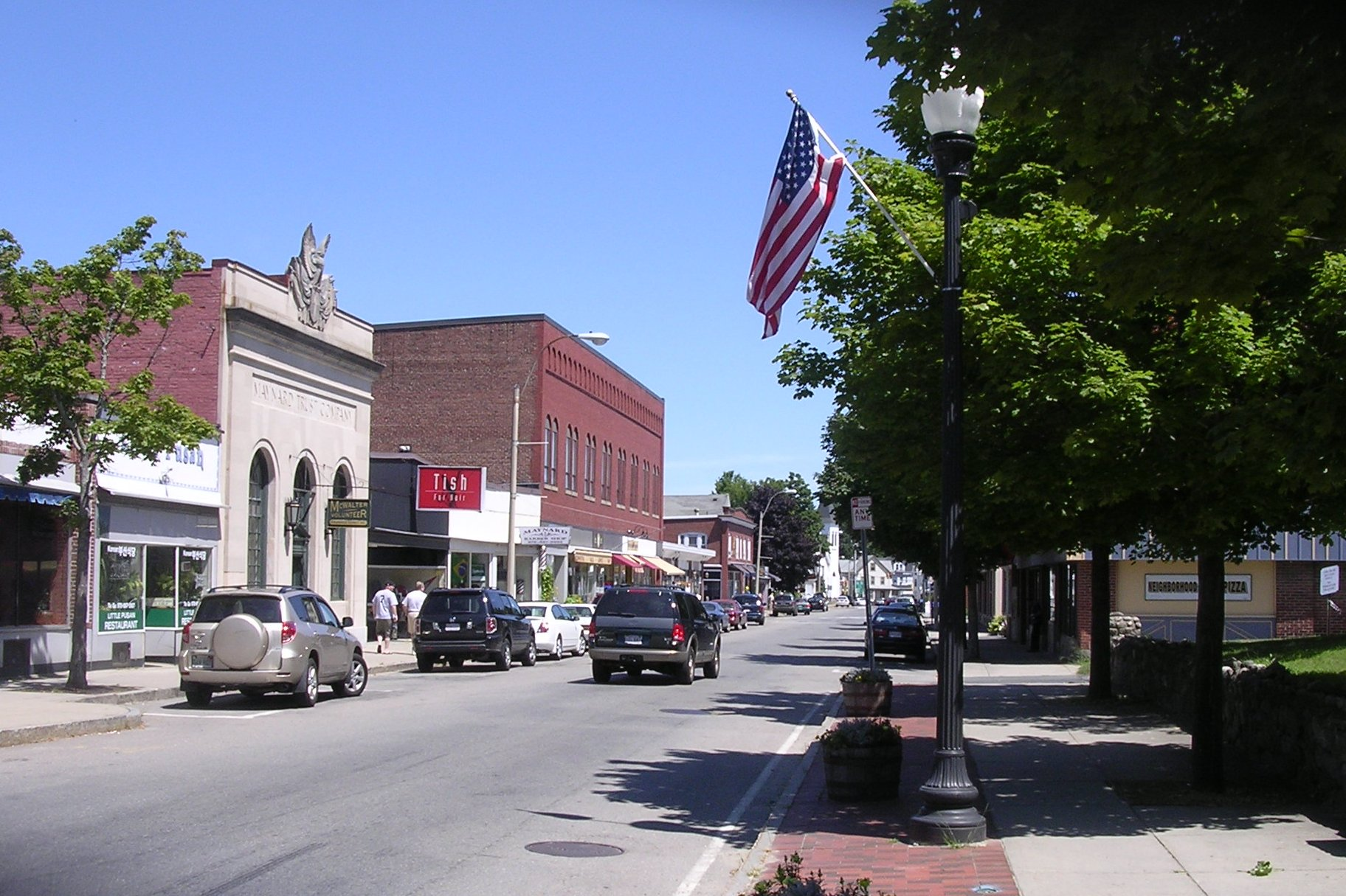 Eastbound MA Route 62 in Maynard Massachusetts